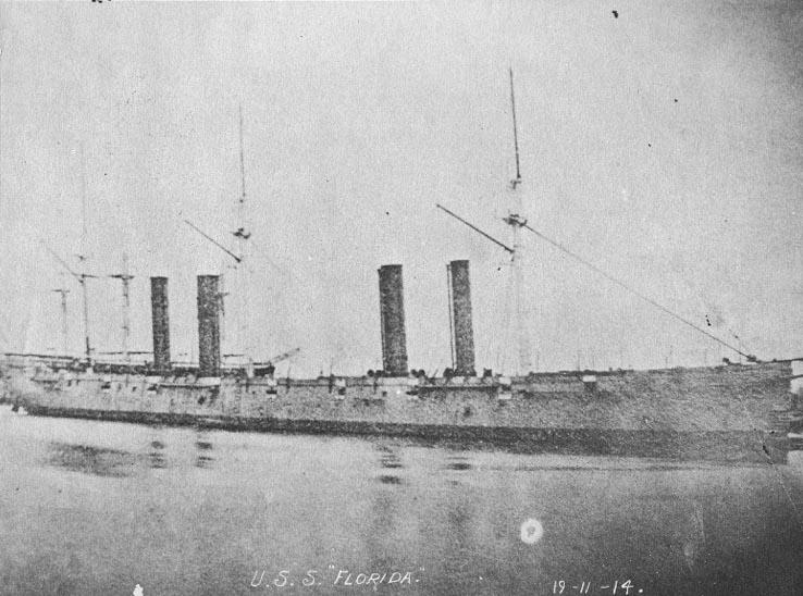 The USS Florida